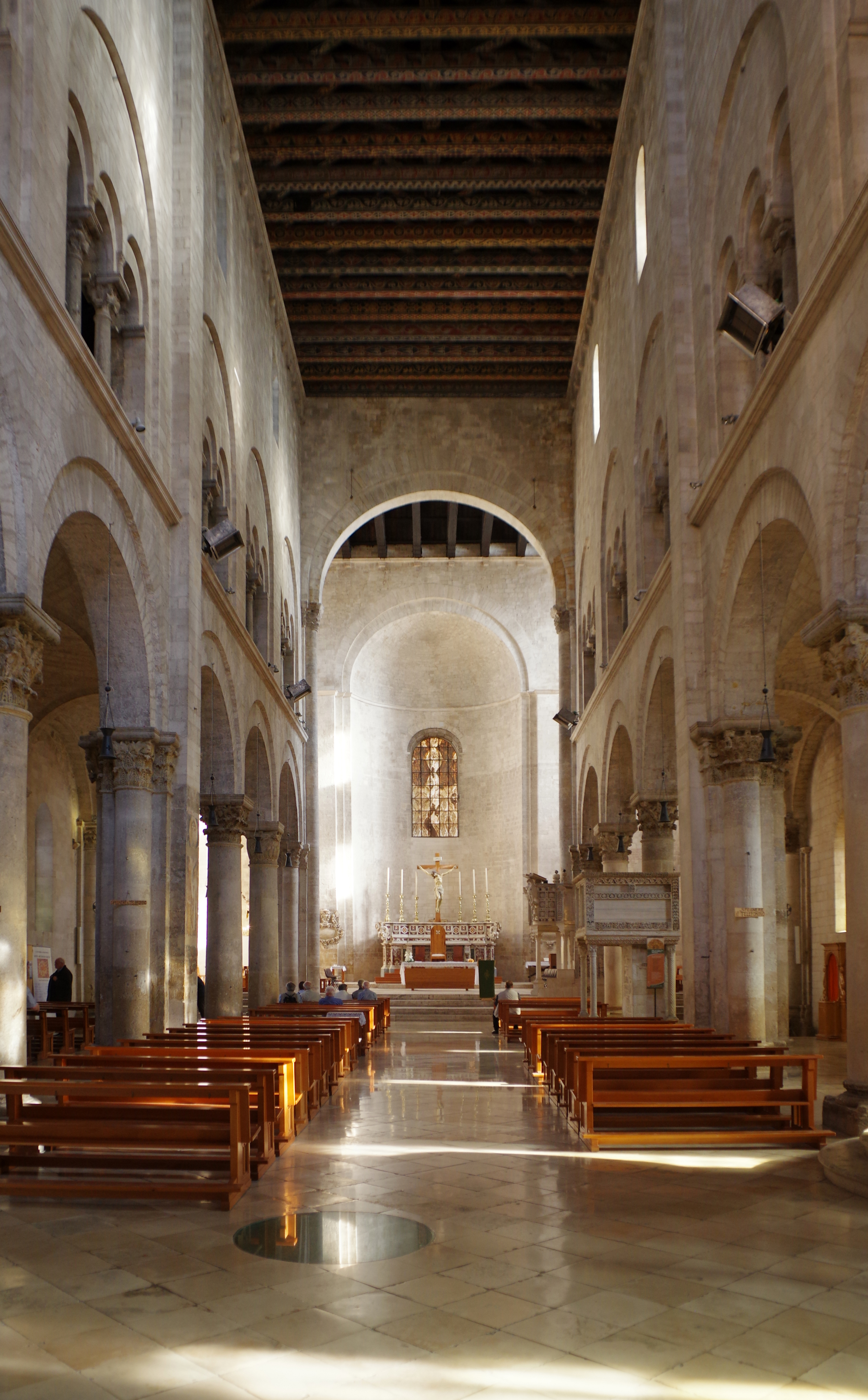 Italy, Bitonto, San Valentino cathedral